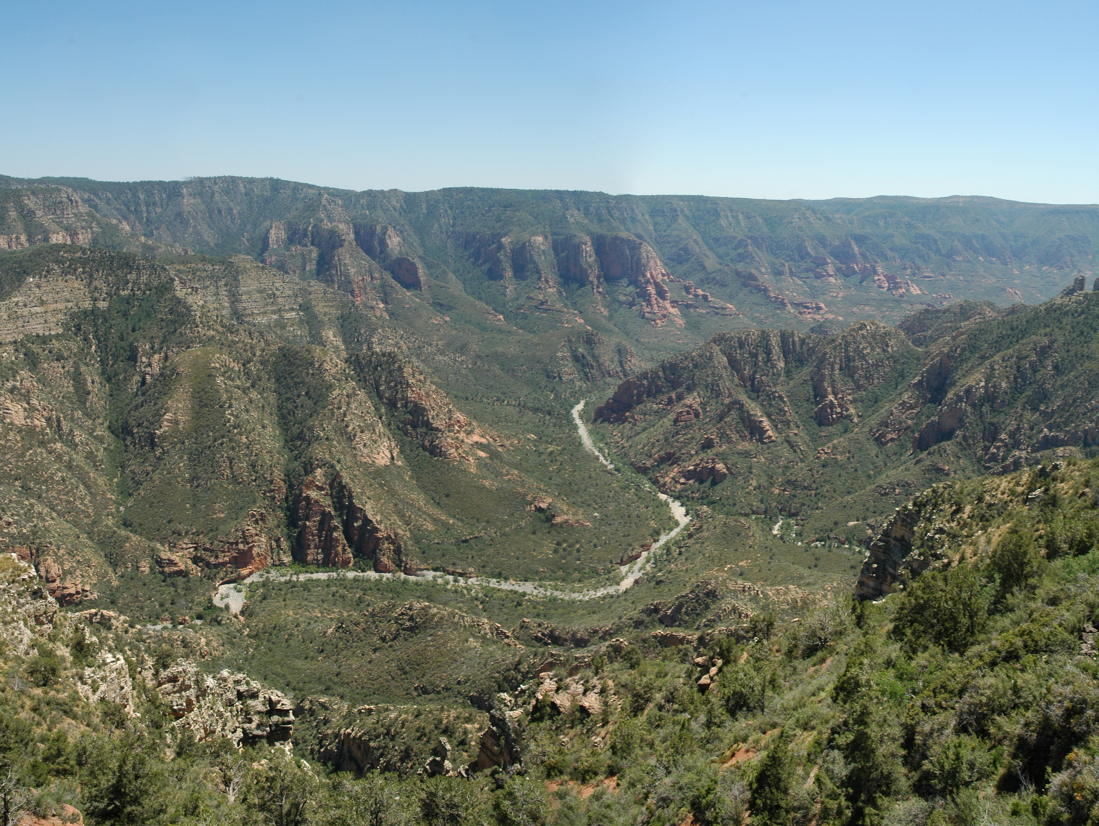 Sycamore Canyon in Kaibab National Forest.